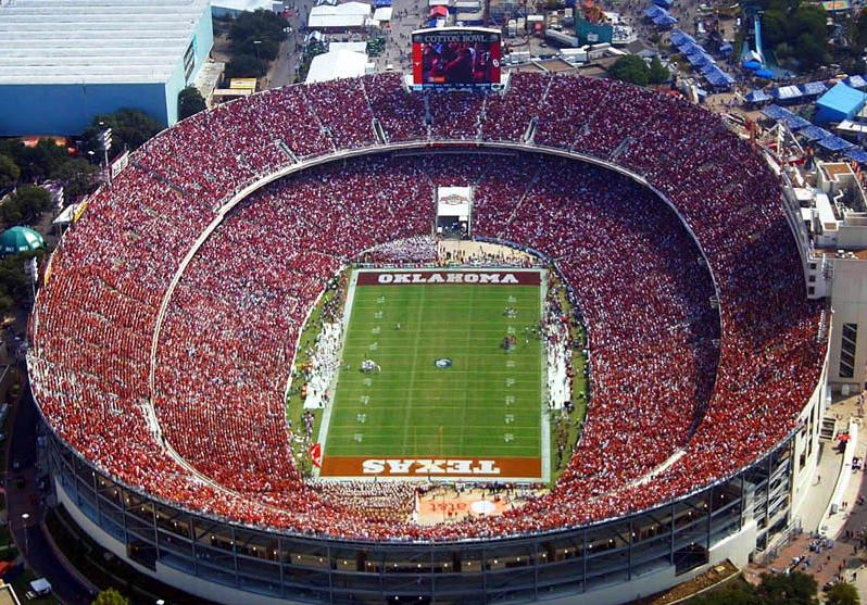 Arial view of the Cotton Bowl with new renovations